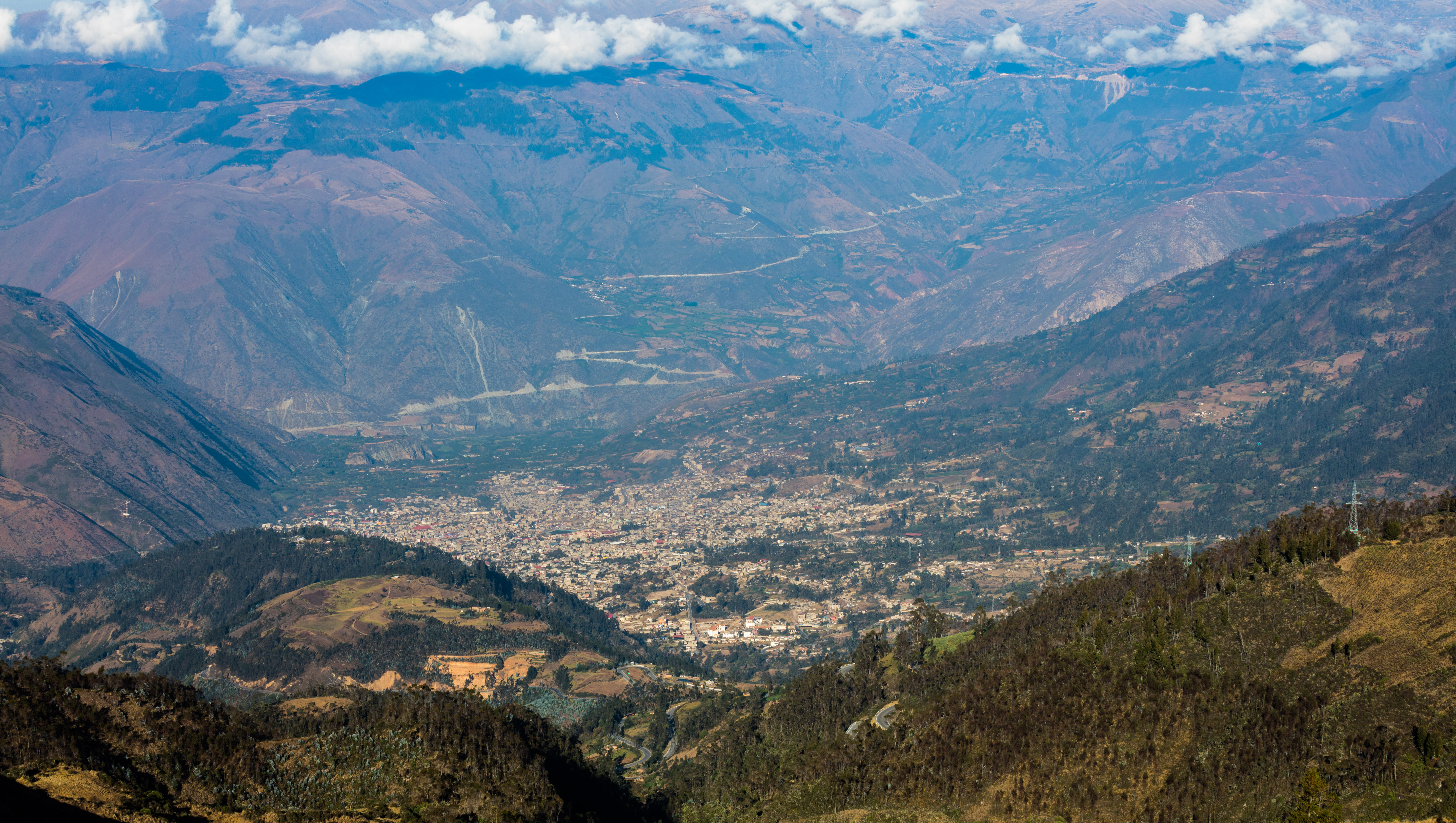 View of Abancay, Peru